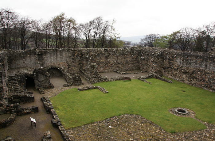 Balvenie Castle, Moray, Scotland - west wing (from the east)